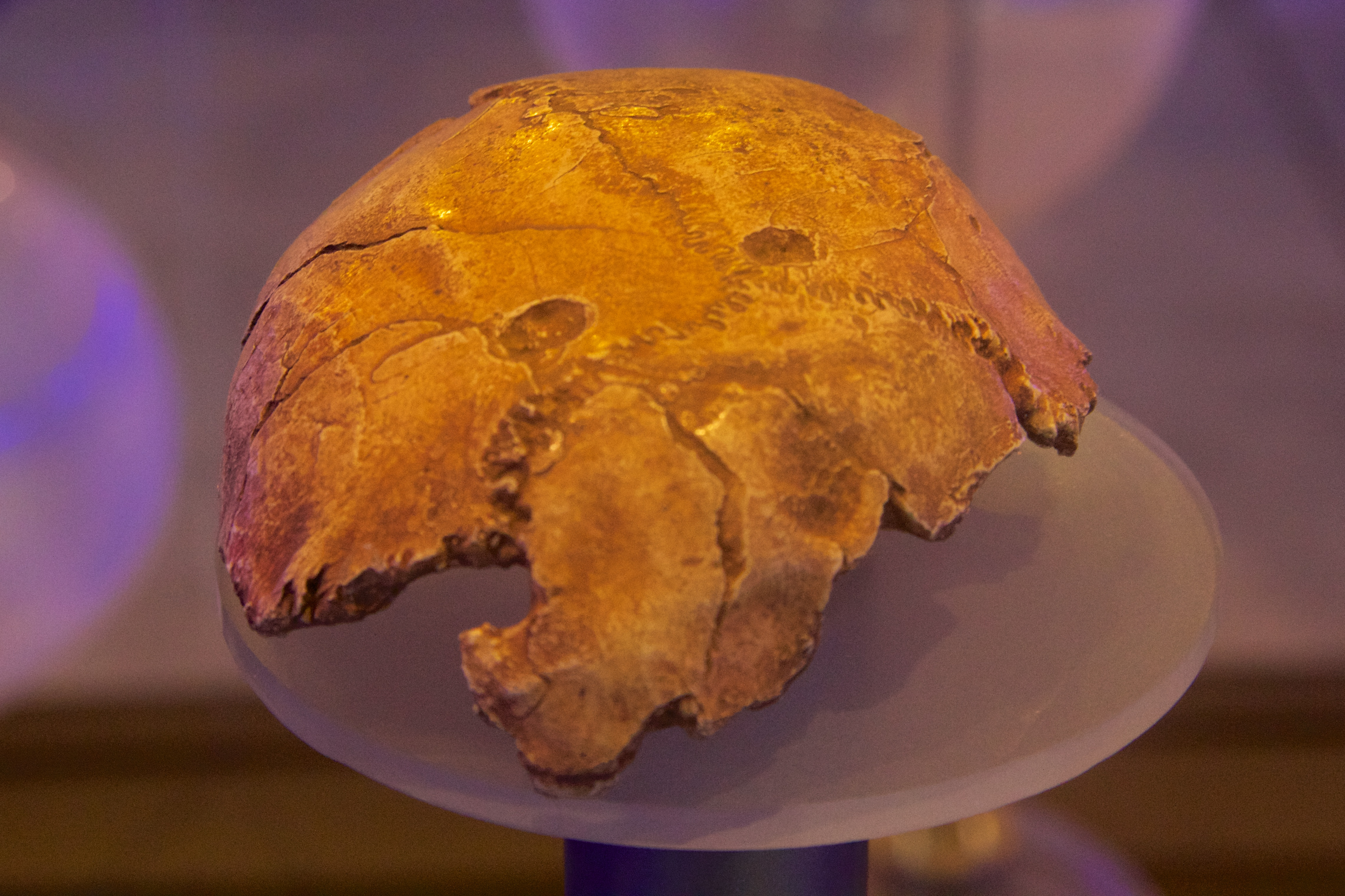 Juvenile Paranthropus robustus skull: SK54 at the Sterkfontein caves.